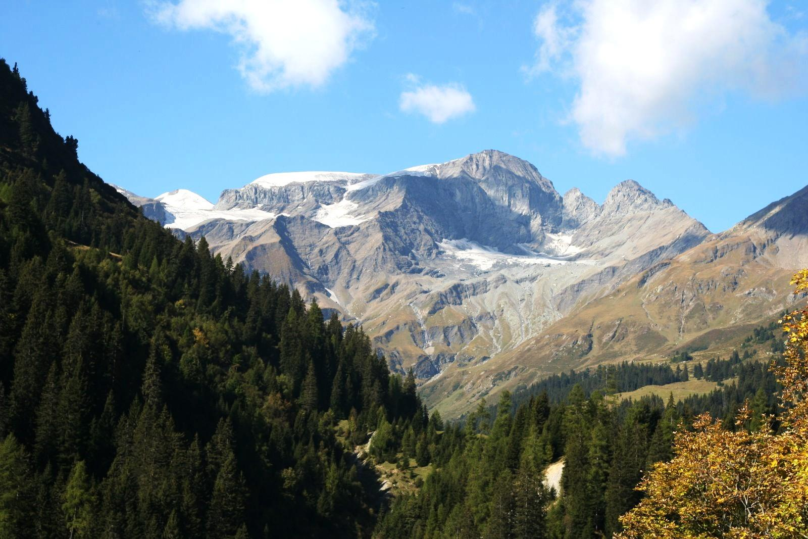 Calfeisental and Piz Sardona, canton St. Gallen.